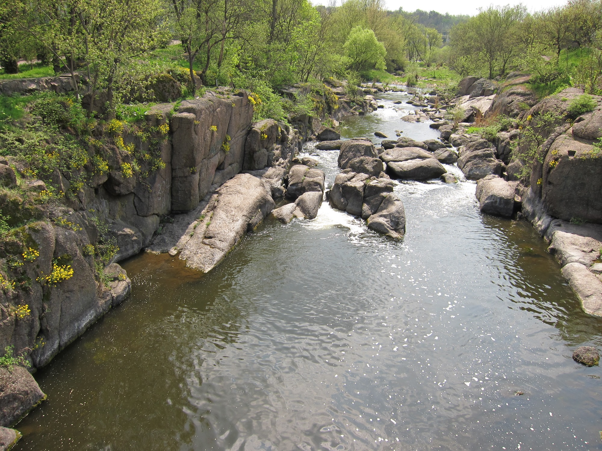 River Ros'. Korsun-Shevchenkivskyi park. Cherkasy Oblast (province) in central Ukraine